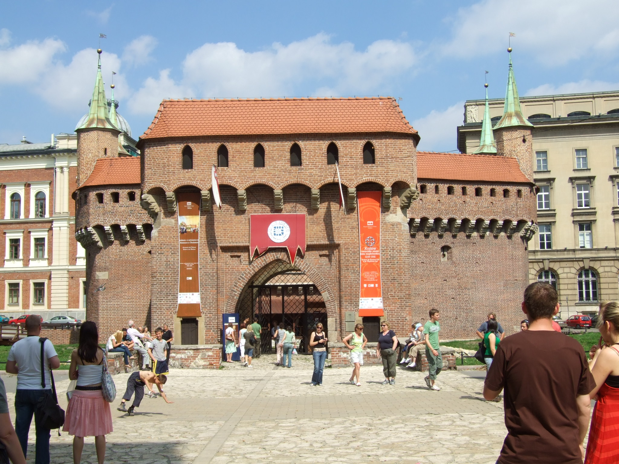 Barbican, Kraków, Poland